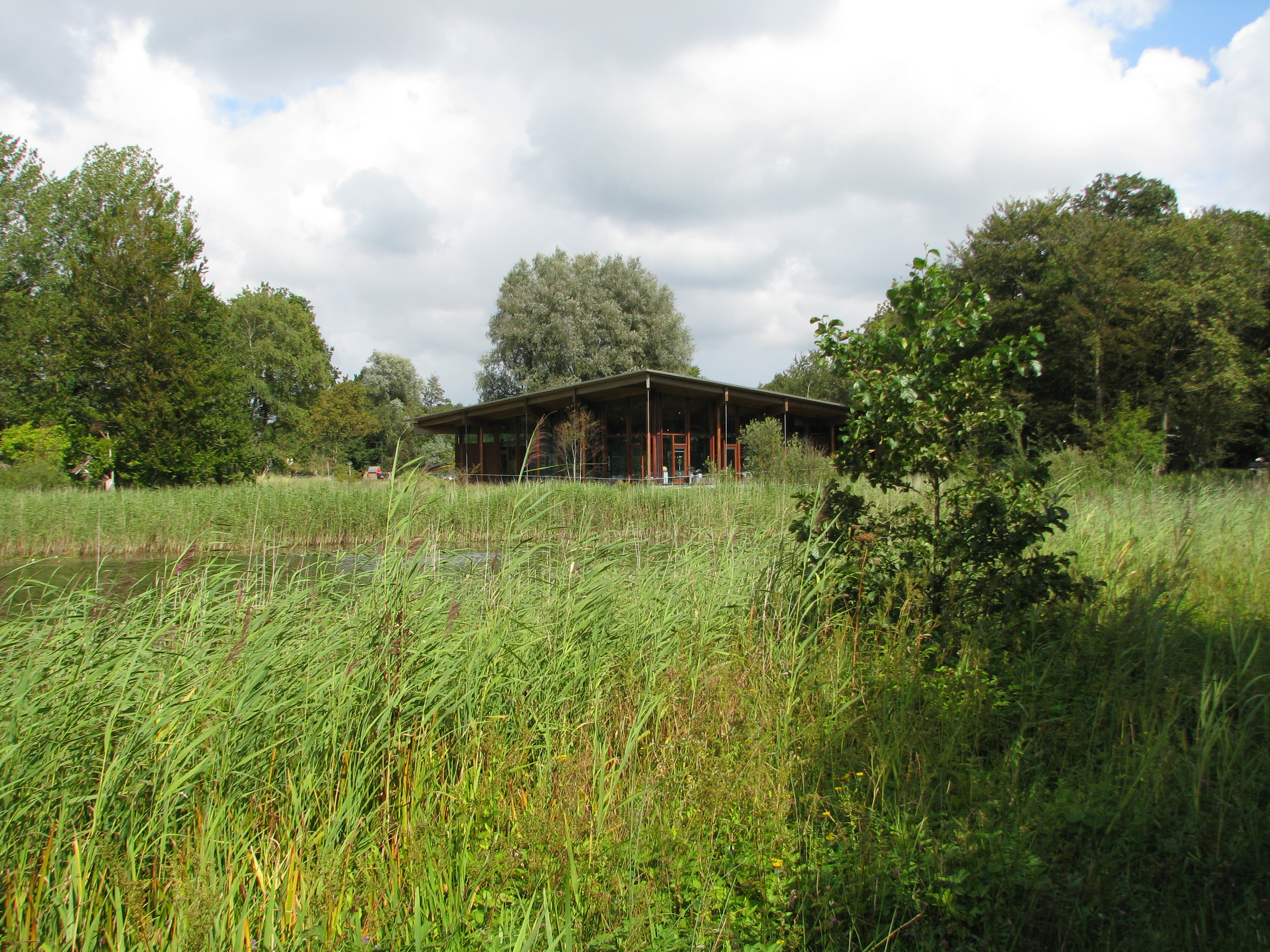 Visitor centre Tenellaplas, Oostvoorne, NL